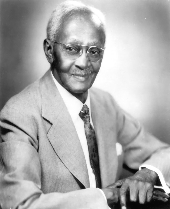 Richard Robert Wright, Sr. Portrait, 1921 Portrait of an American military officer, educator and college president, politician, civil rights advocate and banking entrepreneur. He also founded Georgia State Industrial College for Colored Youth, which is now known as Savannah State University.